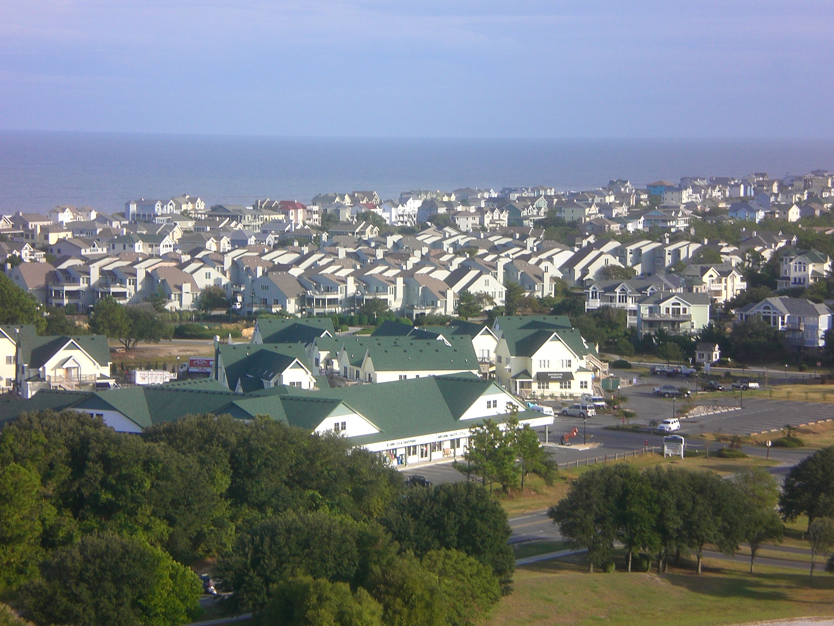 Corolla, North Carolina - view from the lighthouse